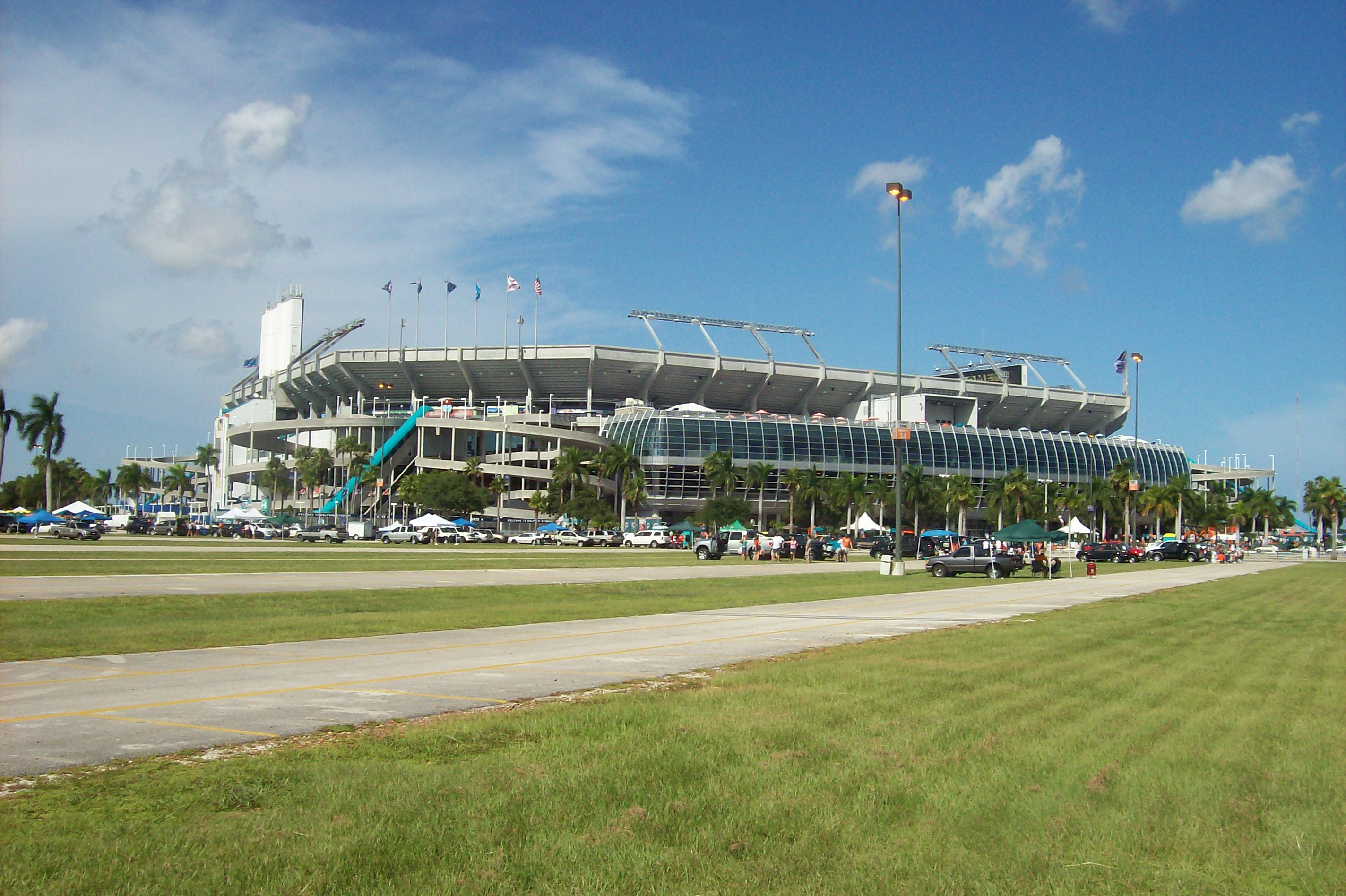 A view of Dolphin Stadium from the southwest side facing towards Gate H, in the Preferred Tailgate Parking zone. Taken August 11th, 2007 several hours before Jaguars/Dolphins preseason football game.